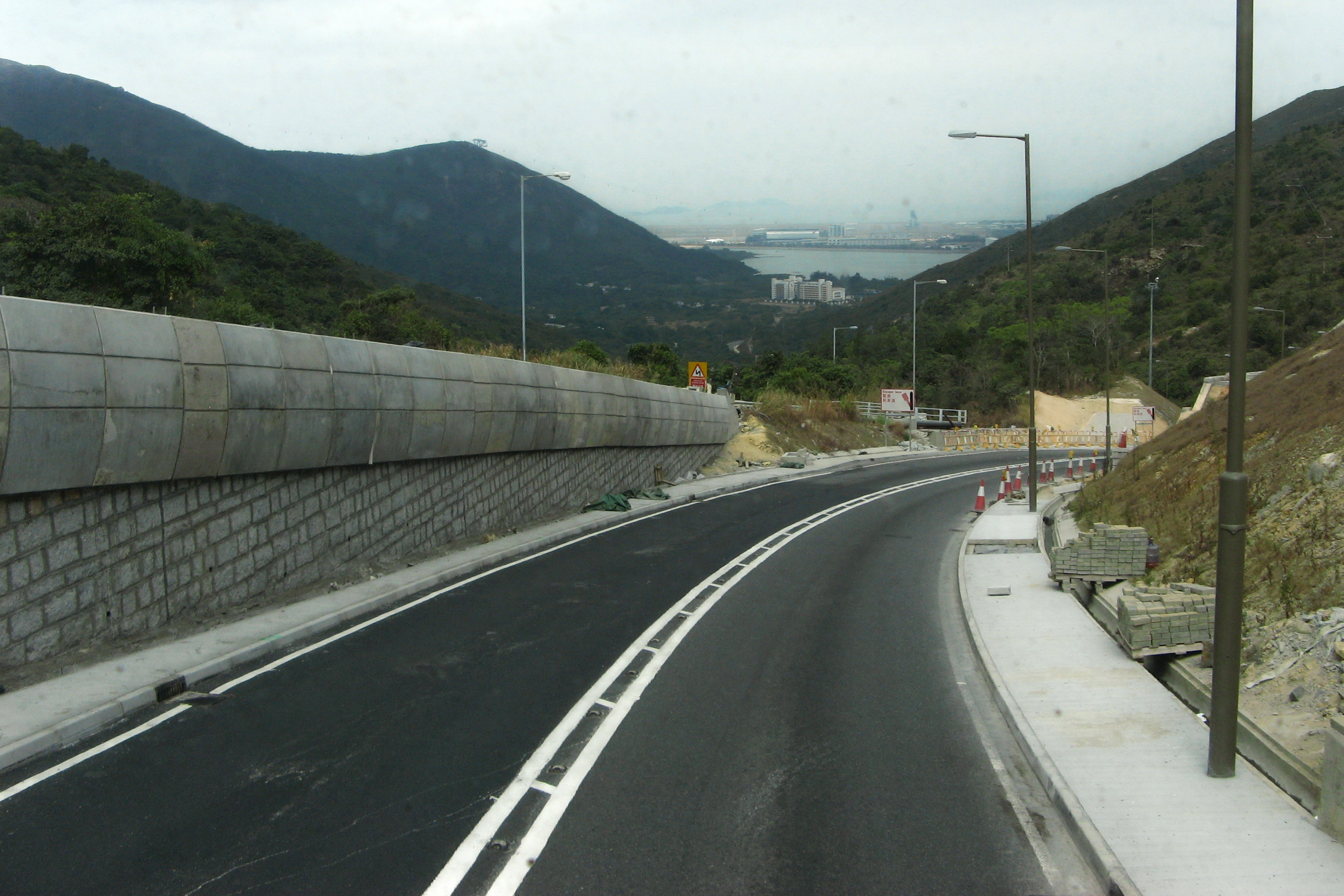 Tung Chung Road, Lantau Island, Hong Kong. Tung Chung Bay and the Hong Kong International Airport in the distance.